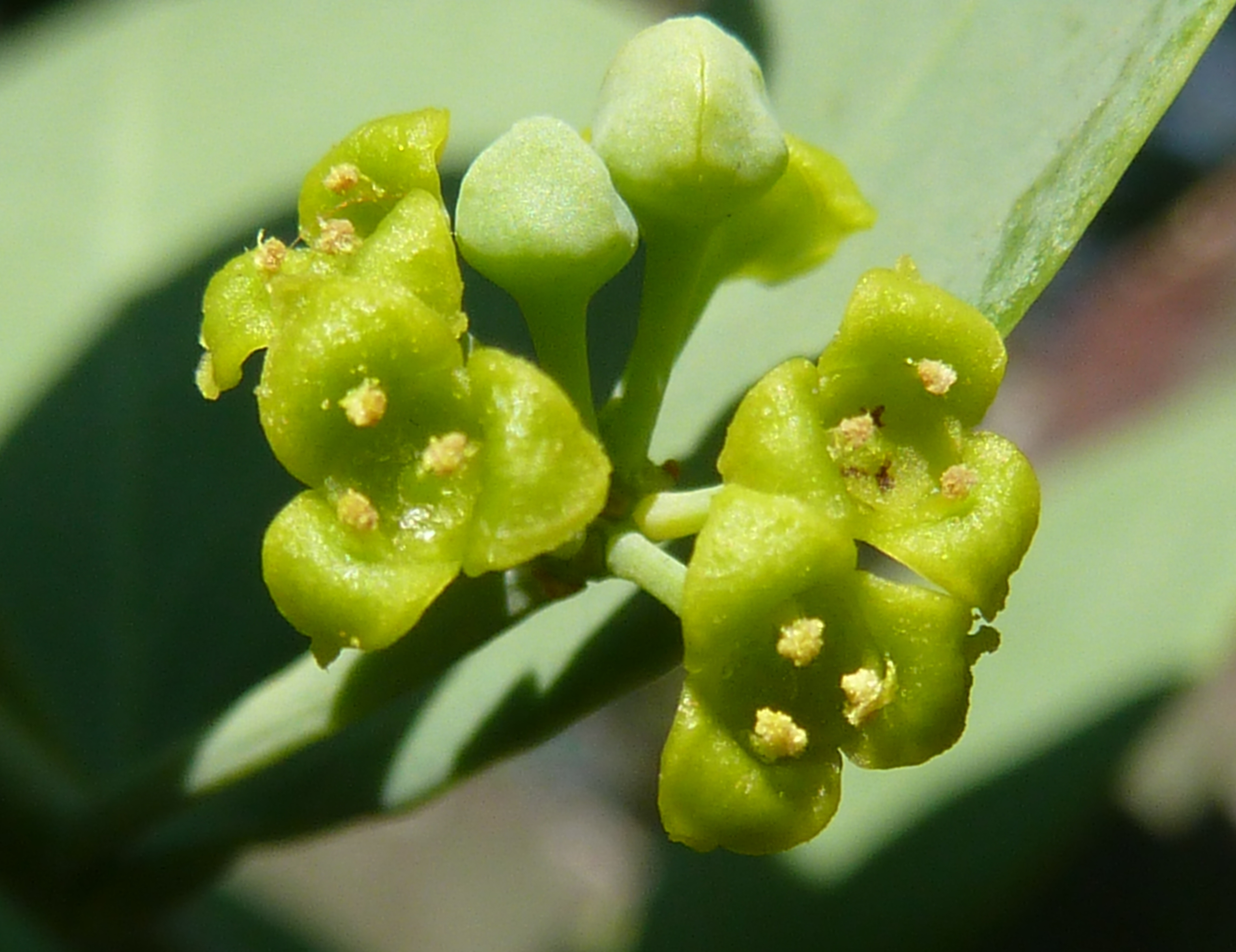 Flowers of a Transvaal sumach at the summit of a stony kopje at Seringveld near Pretoria, South Africa